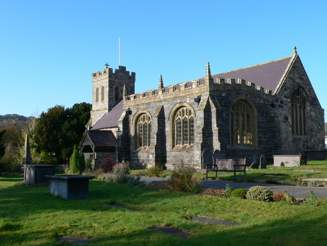 St Grwst, Llanrwst Dedicated to Grwst, a 6th century Welsh saint. A church was first erected on this site qbout 1170; this was a thatched building which was destroyed by fire when Llanrwst was ransacked by Owain Glyndwr. The church was rebuilt in 1470 and restored in 1884.